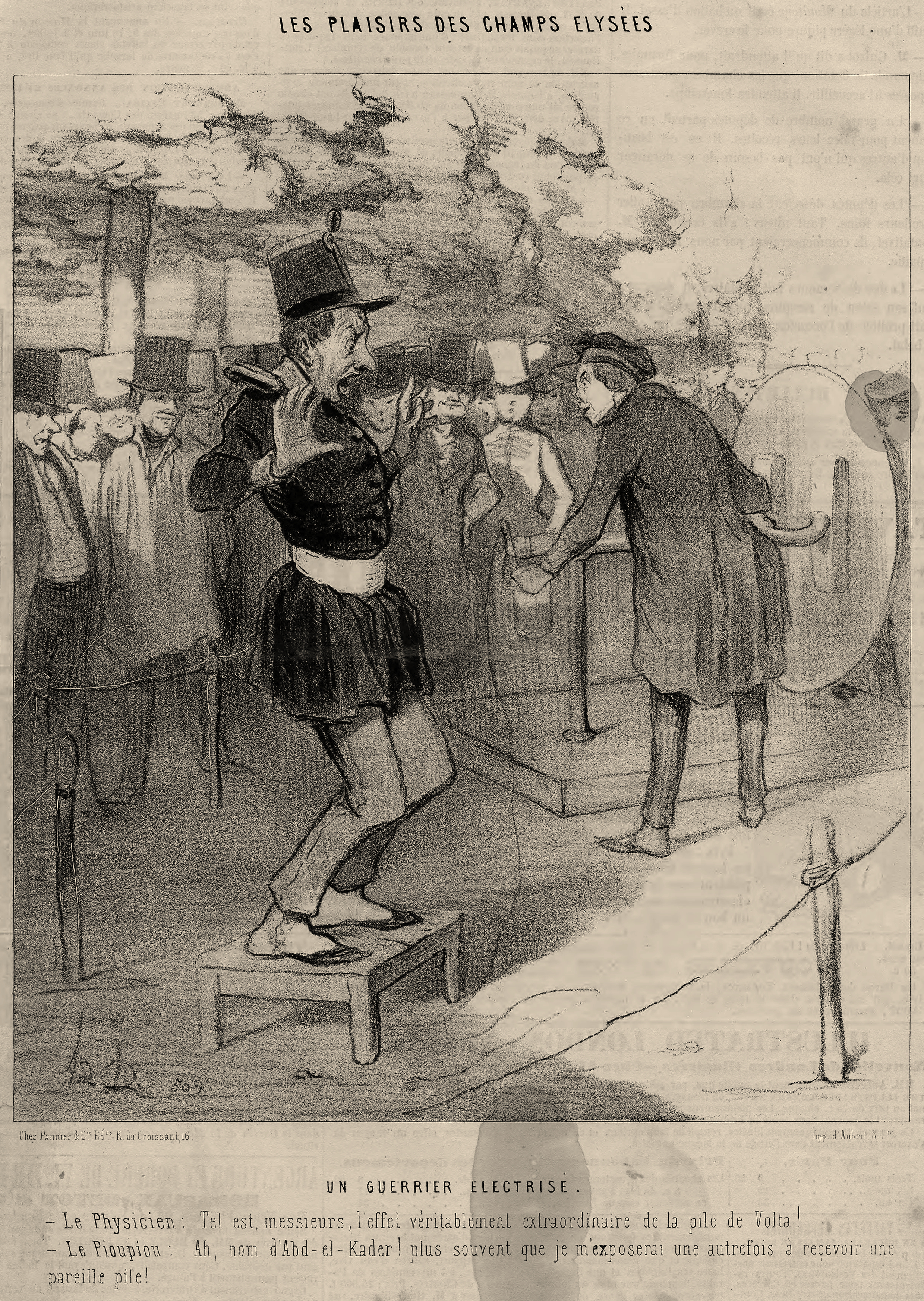 A public demonstration of the powers of electricity, with a French official as subject.